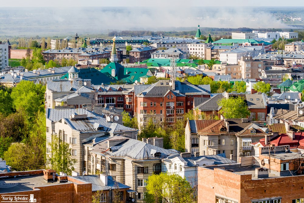 View of Nizhny Novgorod. Kremlin side.